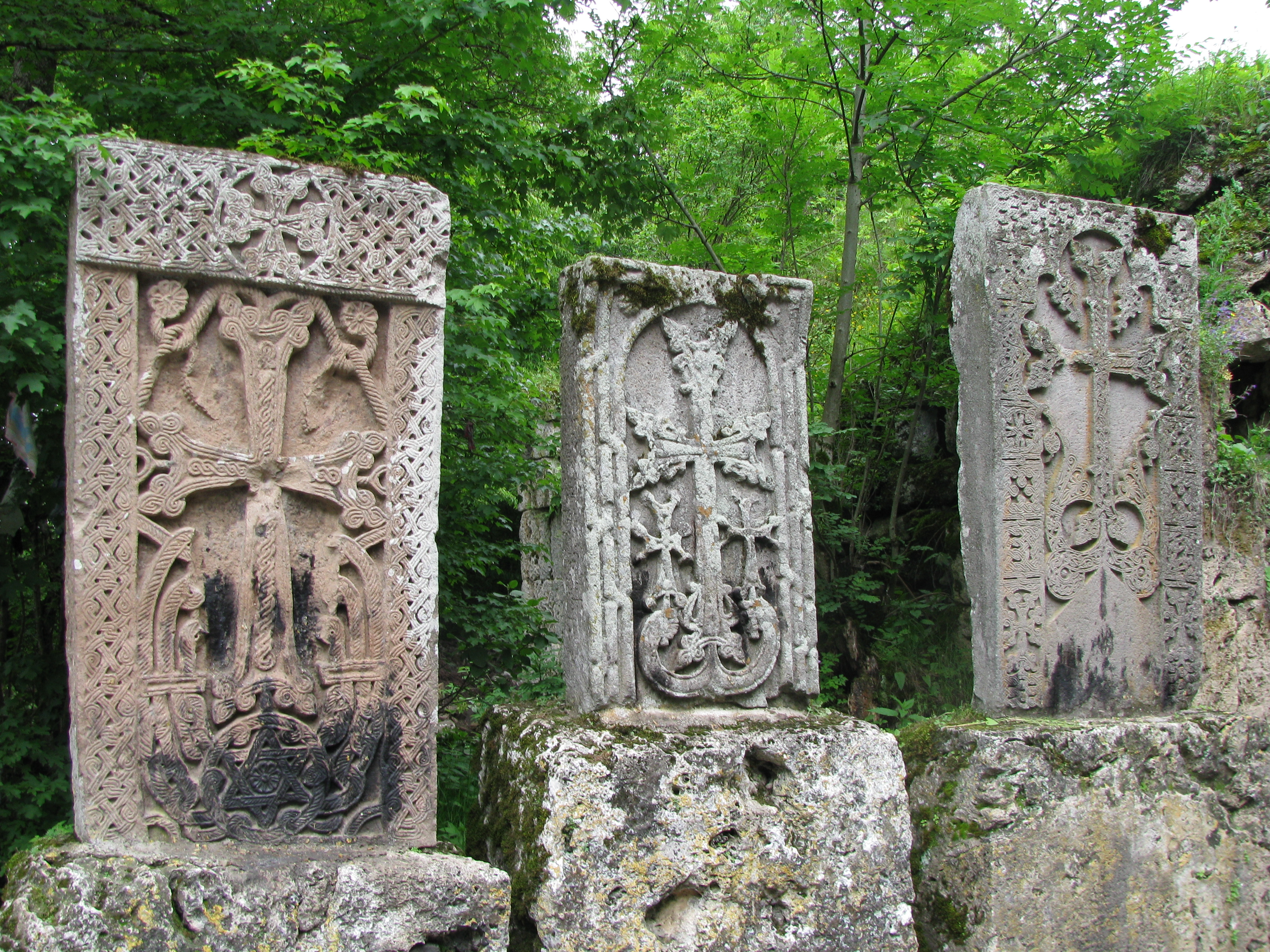 Khachkars at Haghartsin Monastery